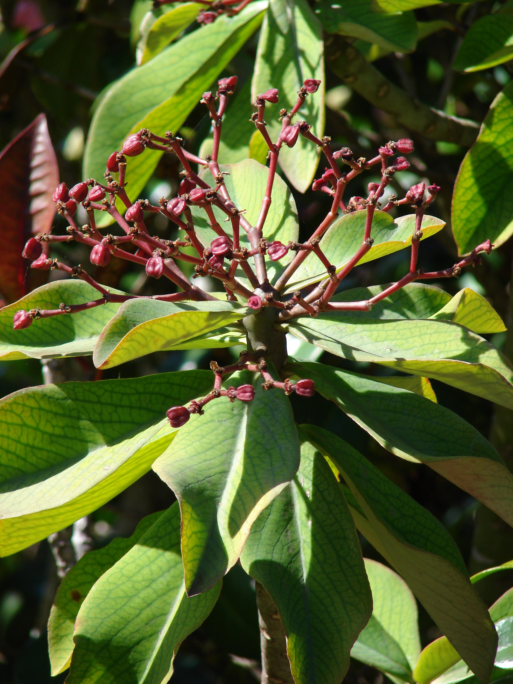 Synadenium grantii (flowers and leaves). Location: Maui, Haiku